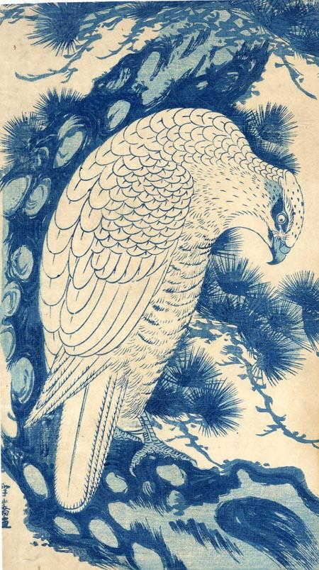 White Falcon in a Pine Tree, woodblock print by Sawa Sekkyô, 13.5 x 7.75 inches